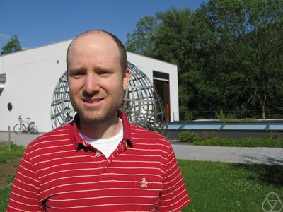 Picture of Ivan Corwin